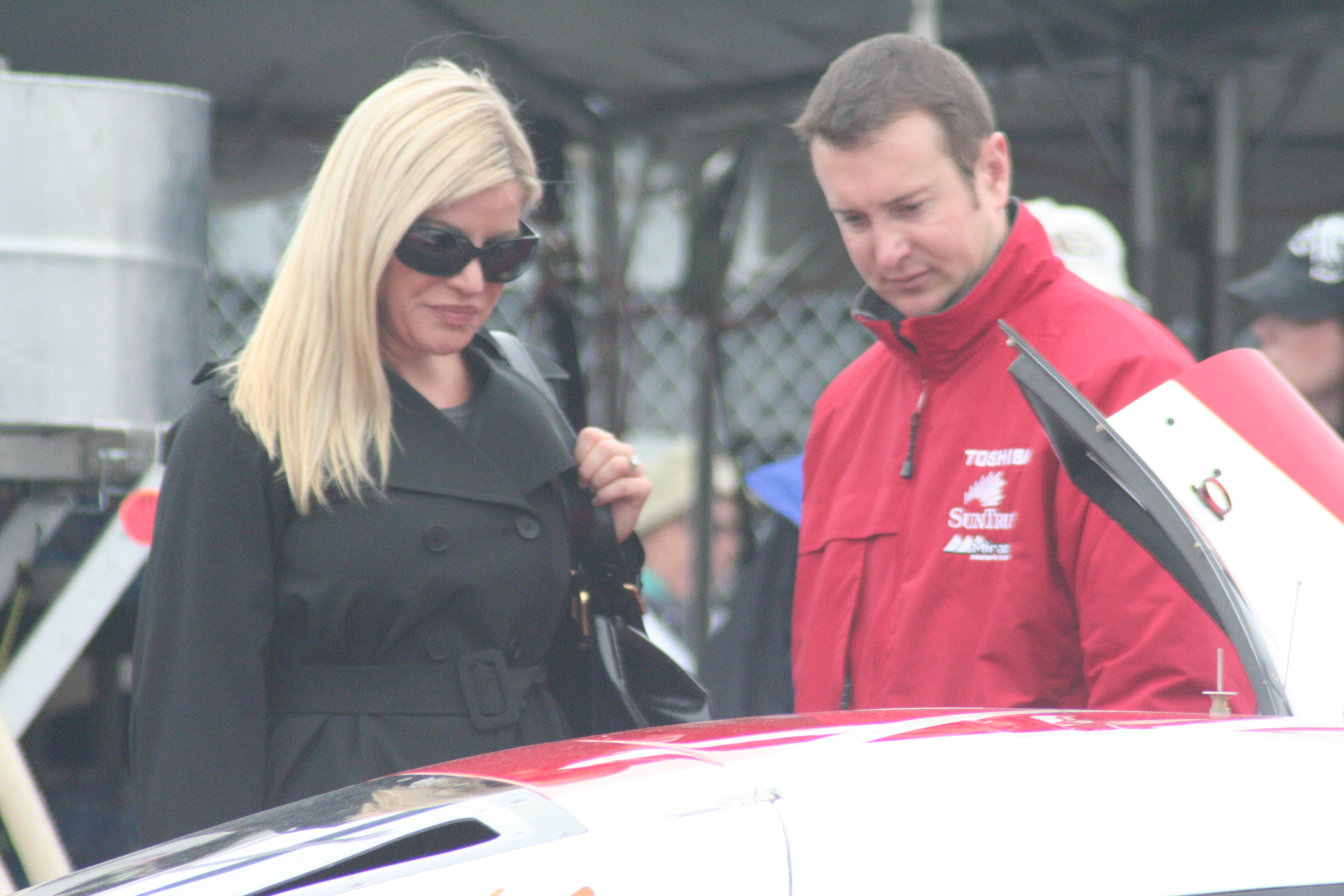 Kurt Busch and his wife Eva, shot by "The Daredevil" at the 2008 Rolex 24 Hours of Daytona event.